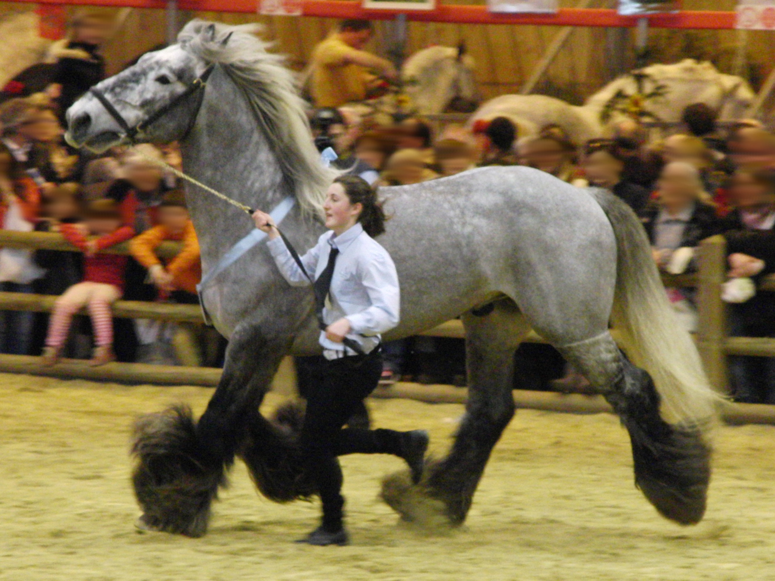 Poitevin Mulassier stallion during a show - Paris International Agricultural Show 2012, Paris, France